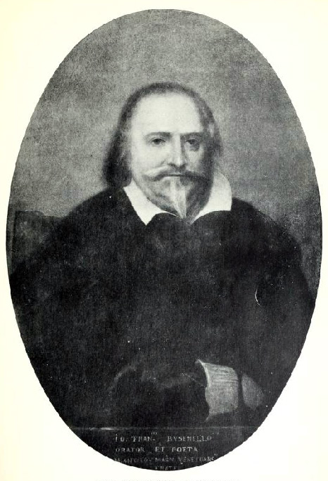 Description: 17th century portrait of Giovanni Francesco Busenello reproduced in La vita veneziana nelle opere di Gian Francesco Busenello published by V. Callegari, Venice 1913. Source: La vita veneziana nelle opere di Gian Francesco Busenello on Author: Unknown 17th Century painter